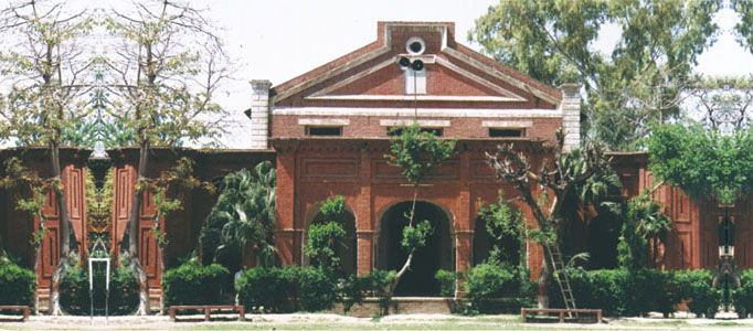 slamia College Gujranwala front